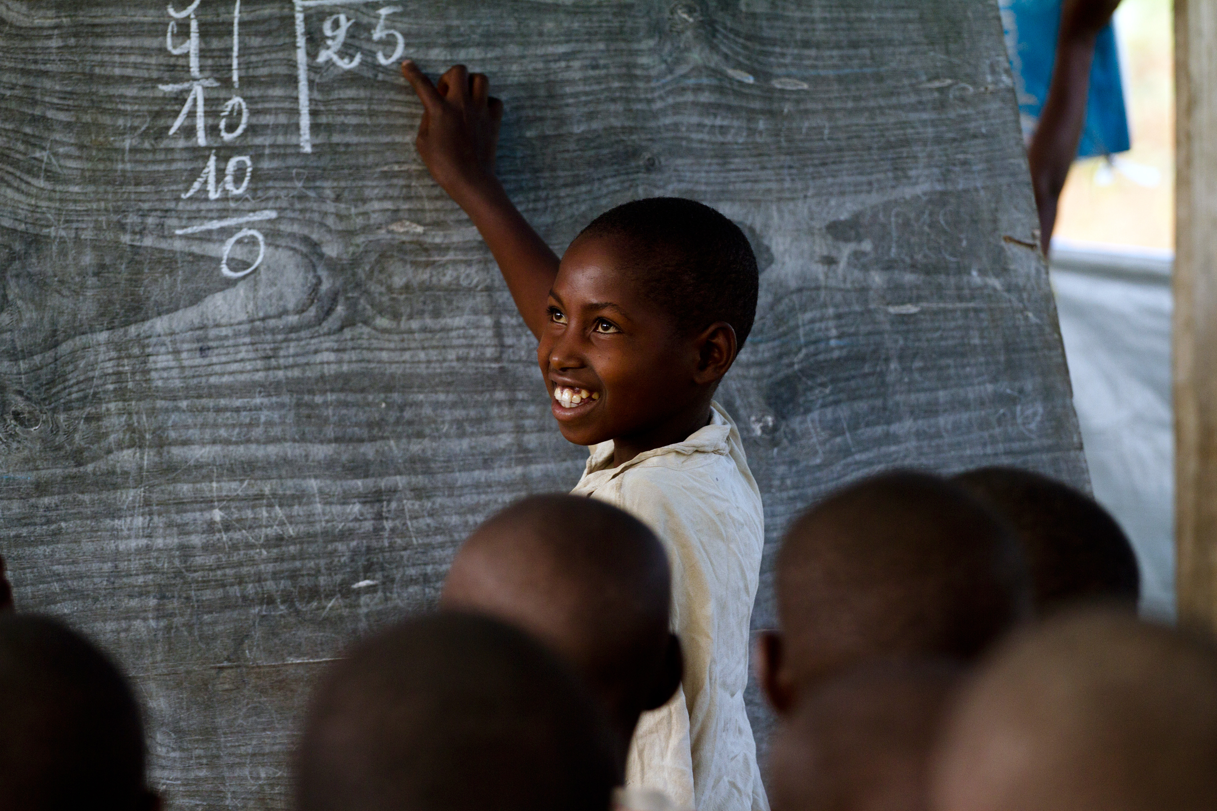 (2011 Education for All Global Monitoring Report) -A young Congolese boy during a lesson at the Mugosi Primary School, which caters mostly for children of the Kahe refugee camp in the town of Kitschoro, in the north eastern part of the Democratic Republic of the Congo.